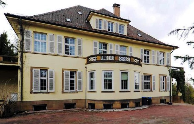 Heilbronn, Villa Fuchs